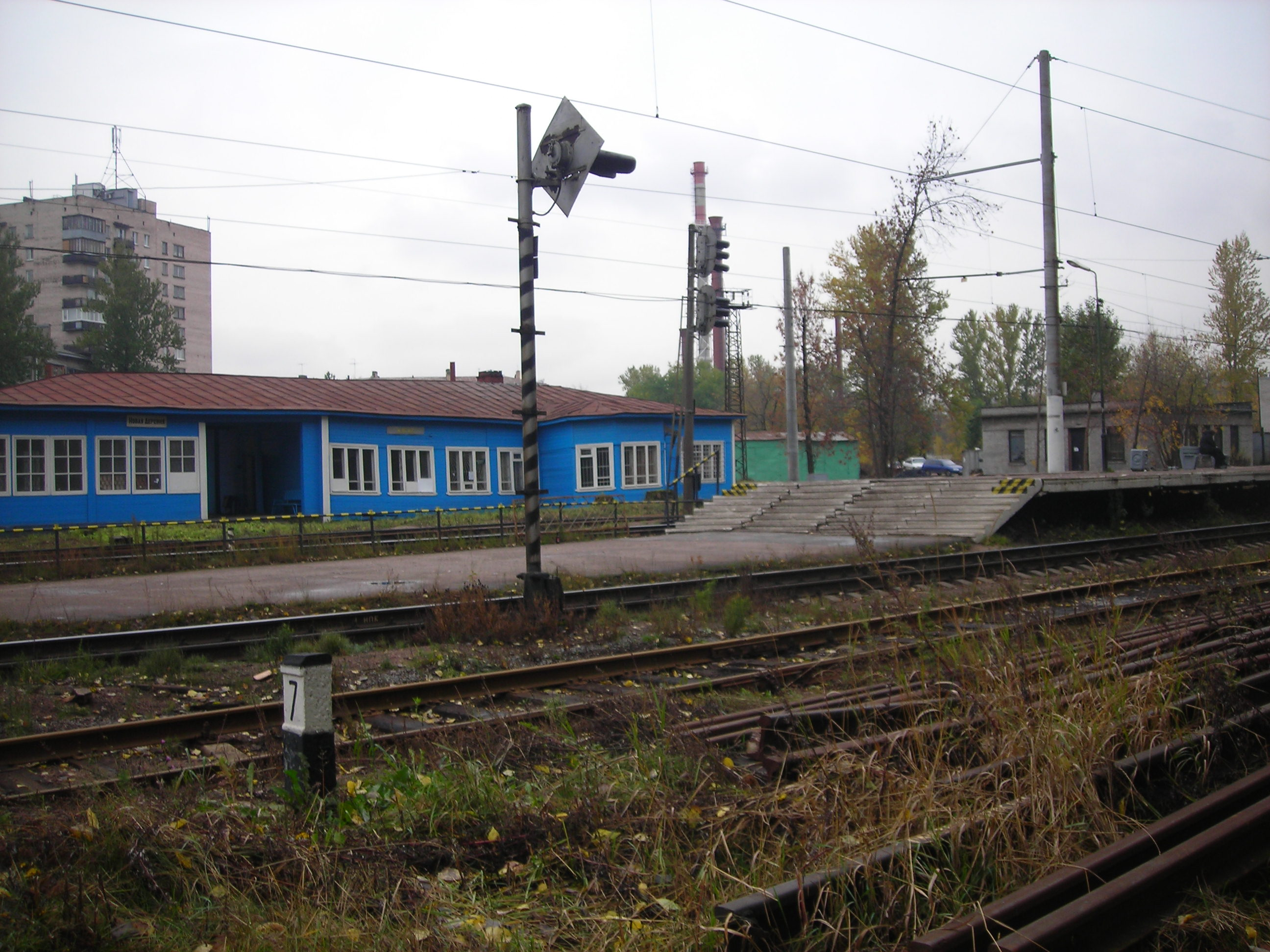 New Village station